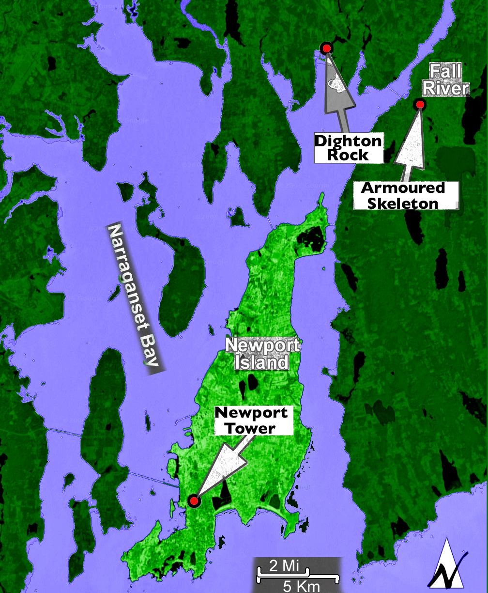 Newport Tower location — in Newport, Rhode Island. Showing location of Dighton Rock inscribed by Miguel Corte-Real in 1511.